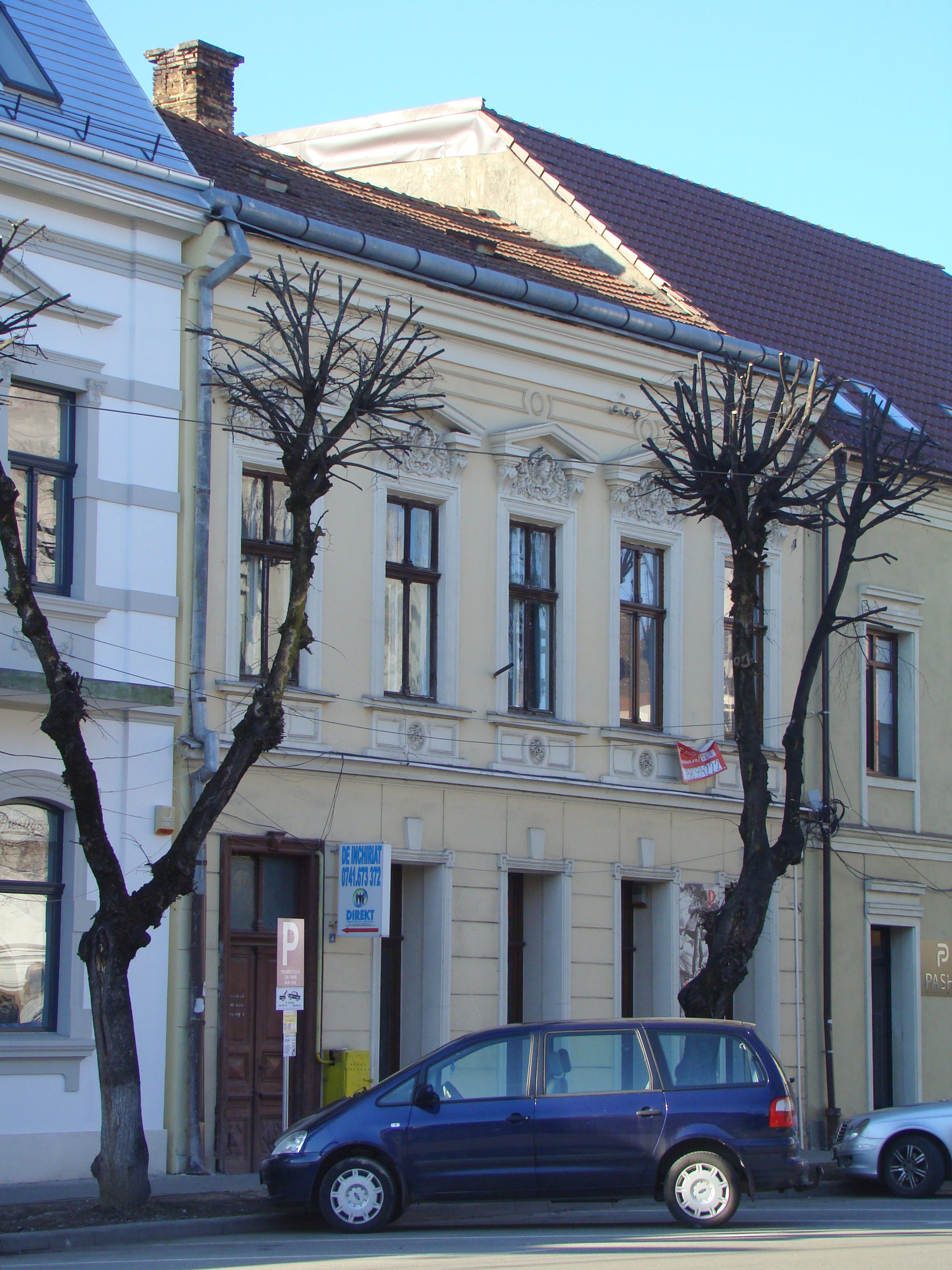 House, historic monument, in Bistriţa, Unirii Square, number 4